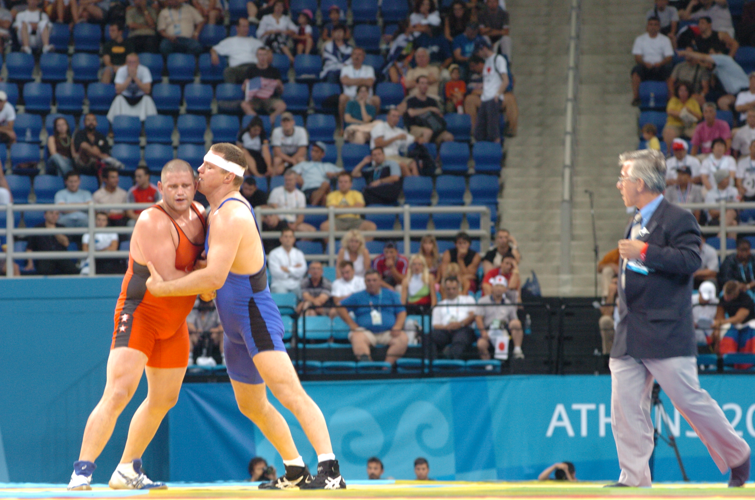 2004 Summer Olympics - Army World Class Athlete Program - FMWRC - U.S. Army - Official Image Archive - Athens Greece - XXVIII Olympiad